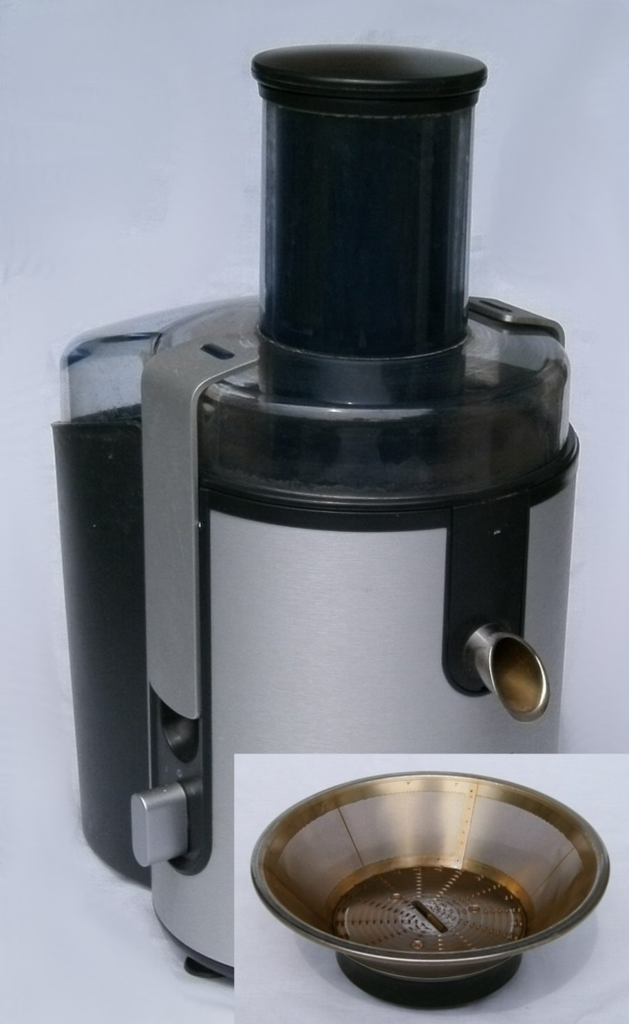 Juicer with conical centrifuge Phillips HR1861